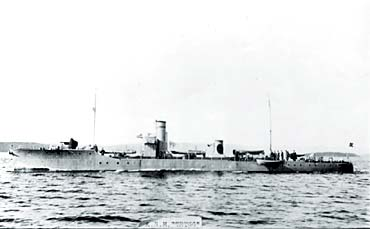 Norwegian Trygg class torpedo boat HNoMS Trygg